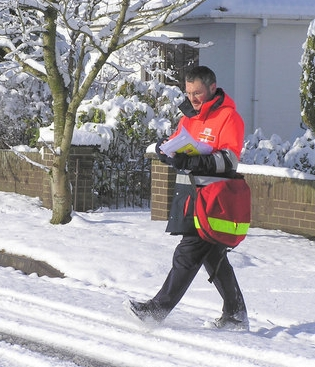 Royal Mail early morning delivery, Omagh. The frosty scene this morning at Georgian Villas.